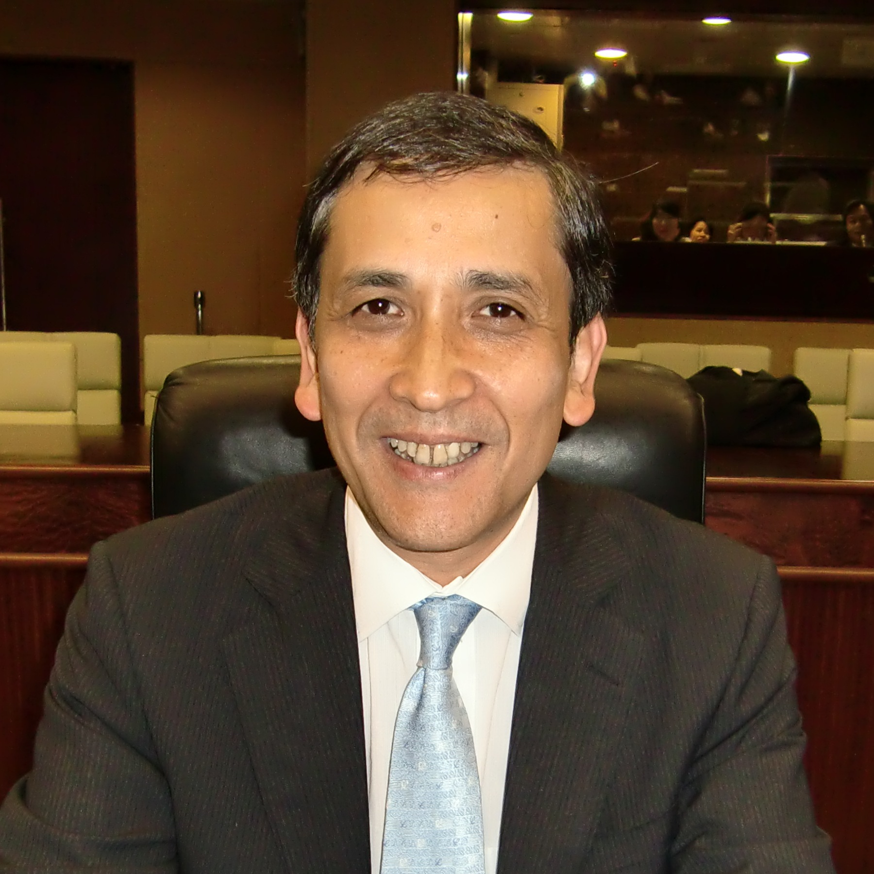 Leonel Alberto Alves, legislator and member of Executive Council of Macau SAR